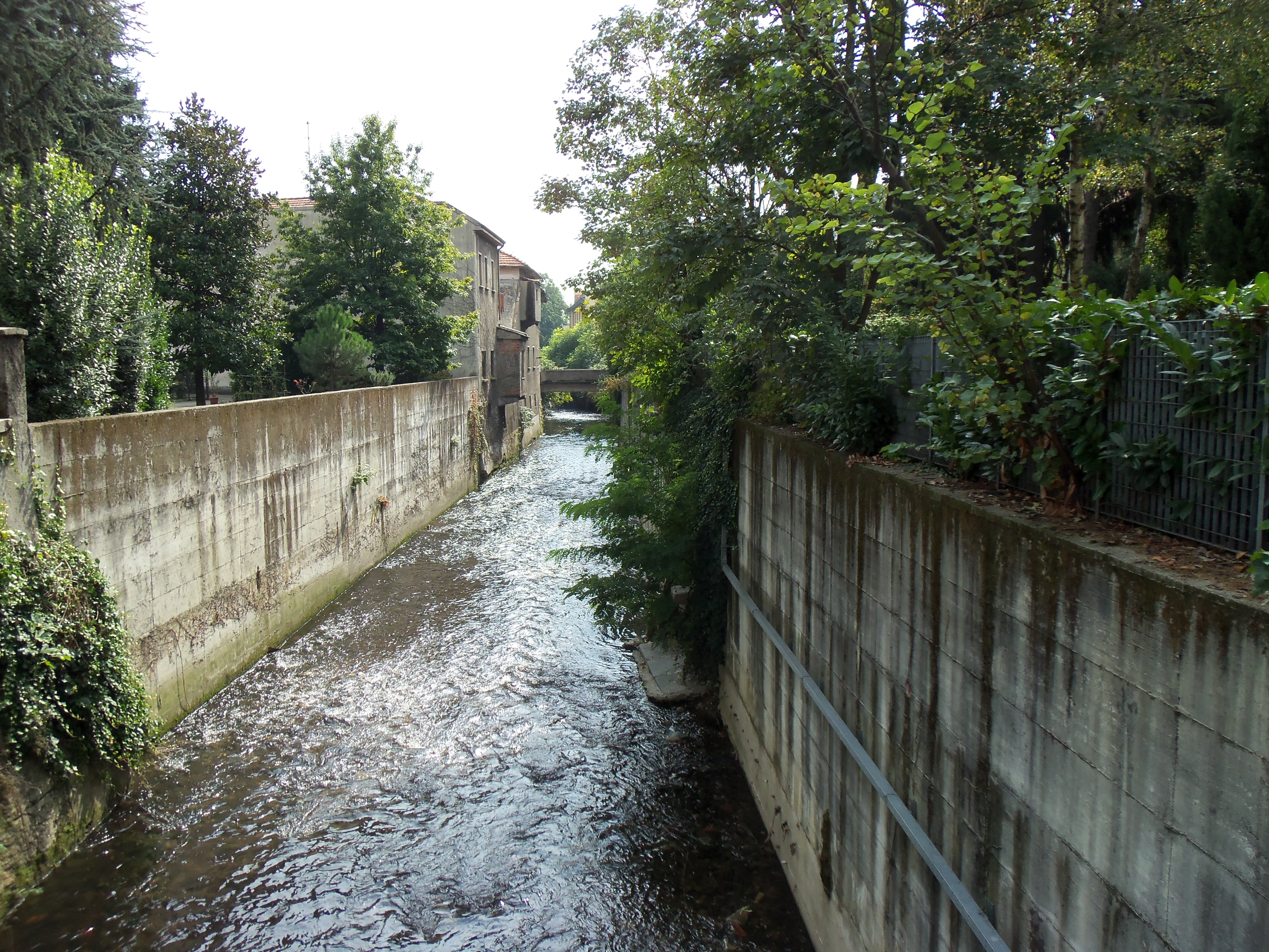 Seveso river: artificials banks in city of Seveso